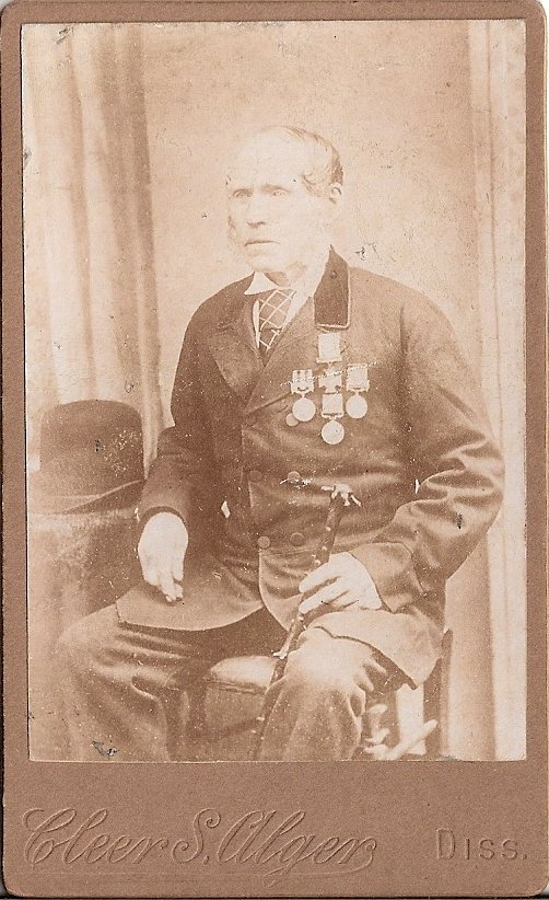 Carte de visite of Patrick Green VC